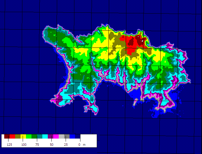 Topographic relief map of the Channel Island of Jersey. Produced from SRTM data using Microdem. Jaraalbe 08:07, 21 April 2006 (UTC)